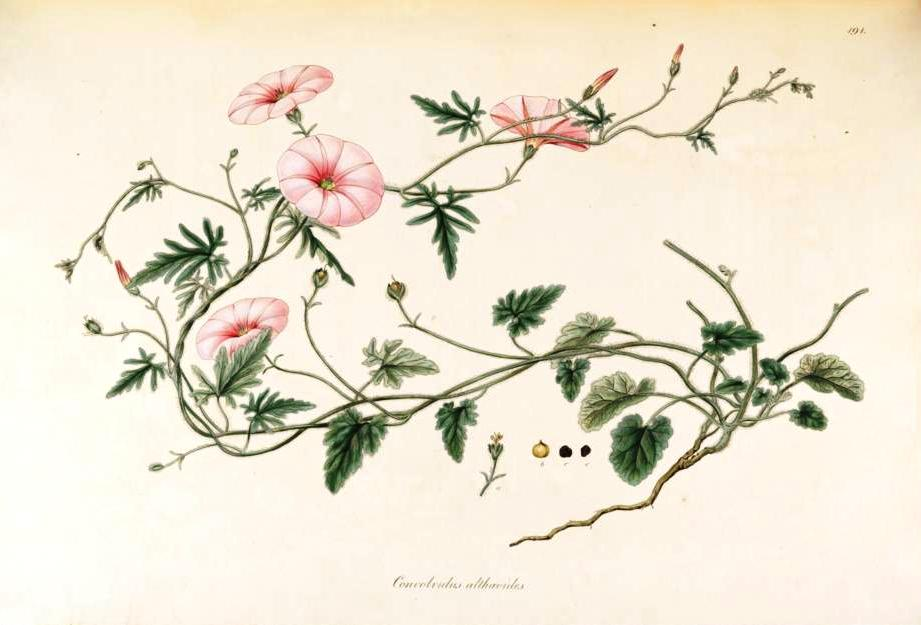 Plate of Convolvulus althaeoides from the Flora Graeca.